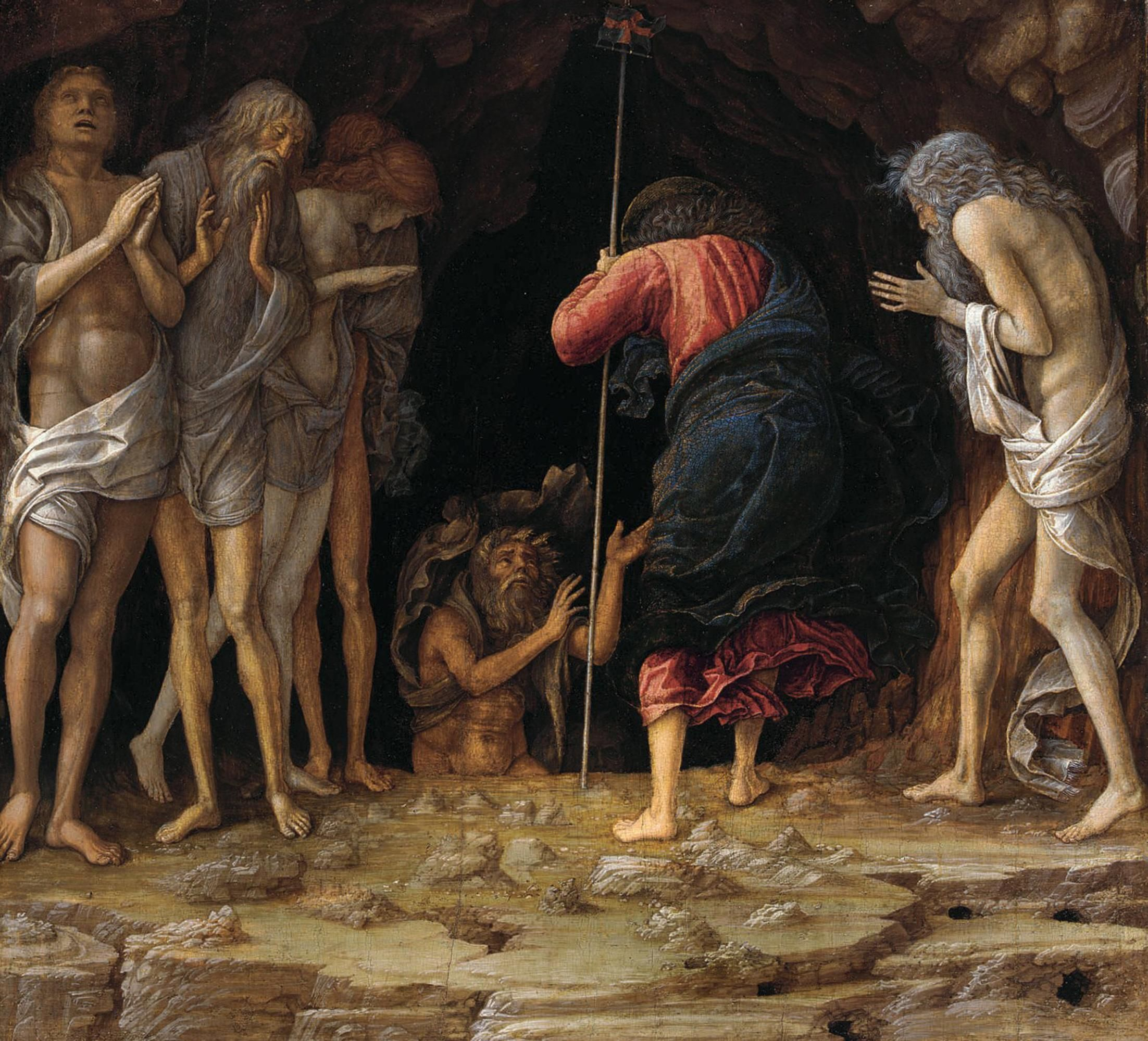 The first version, for Marchese Lodovico Gonzaga, Andrea Mantegna painted in June of 1468. This smaller one, which was probably done for Ferdinando Carlo, the last Duke of Mantua, around 1470–75. The conventional title given to the work, its workshop replicas and the engraving of it, Christ's Descent into Limbo, is a modern one.